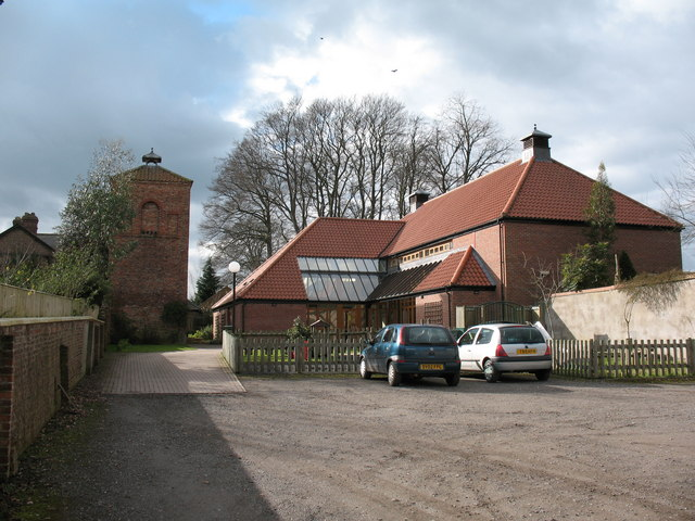 Millennium Hall, Helperby, North Yorkshire, built as a village hall